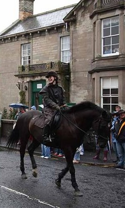 Coldstream Festival - The Horses & riders